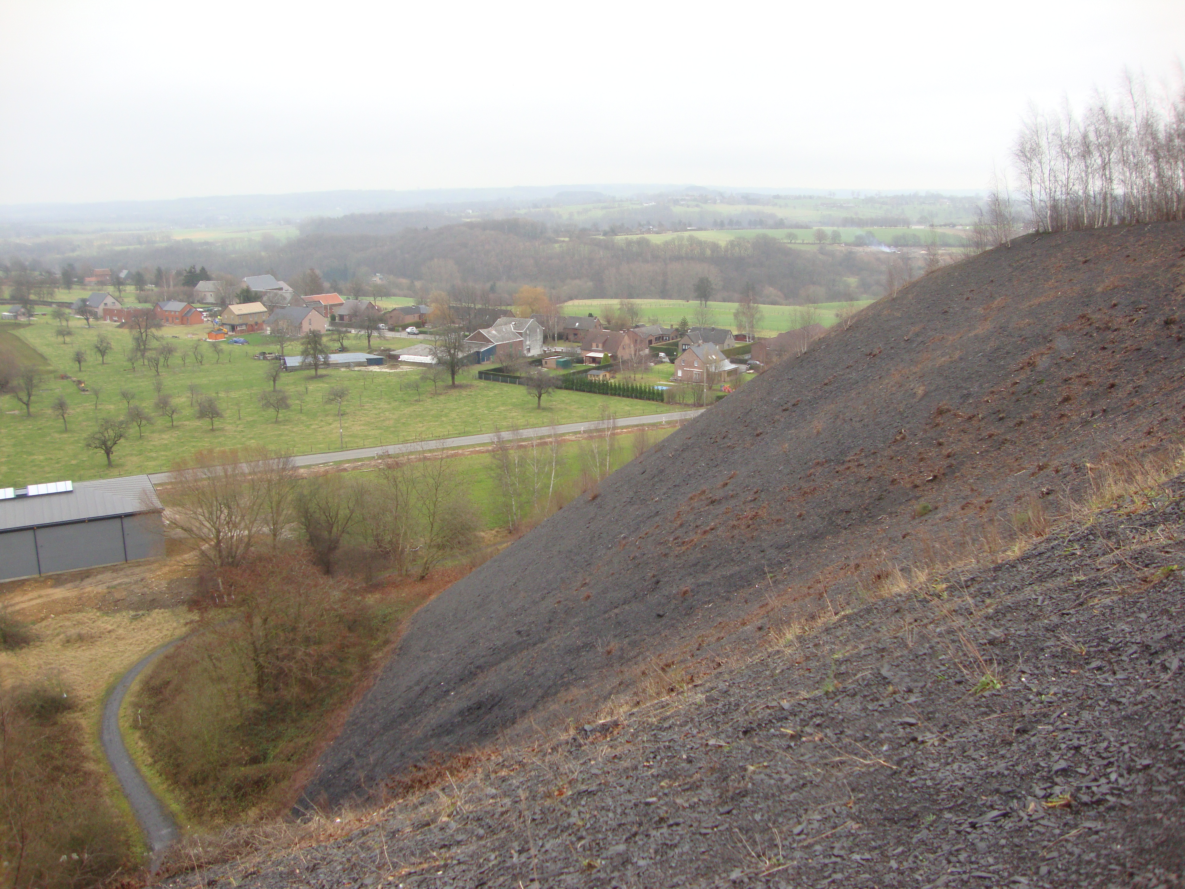 View in the north east direction from the summit of the slag heap in Blegny, Belgium.